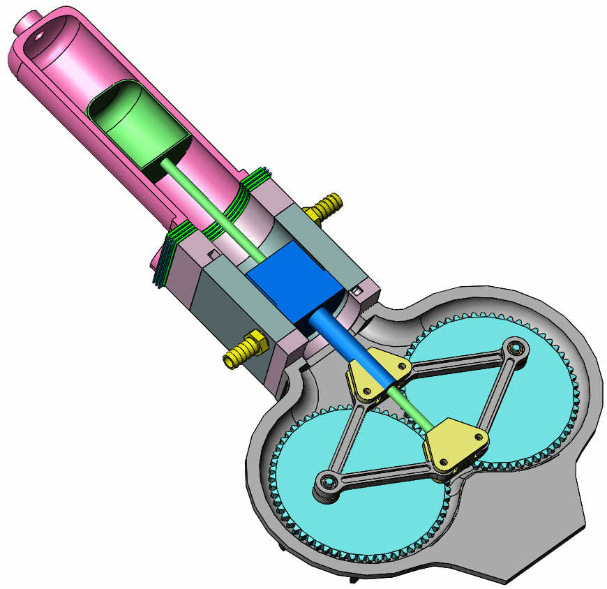 Rhombic drive Beta type Stirling design